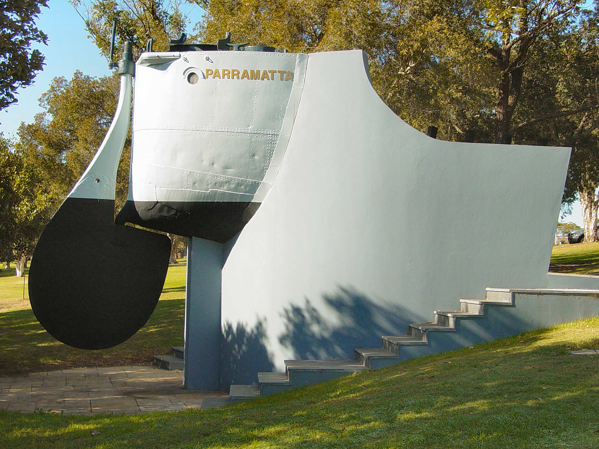 Photograph of the preserved stern of the first HMAS Parramatta at Queens Wharf Reserve on the banks of the Parramatta River. Originally uploaded to EN Wikipedia as File:HAMS Parramatta D-55 DSC03133.jpg 23 September 2005